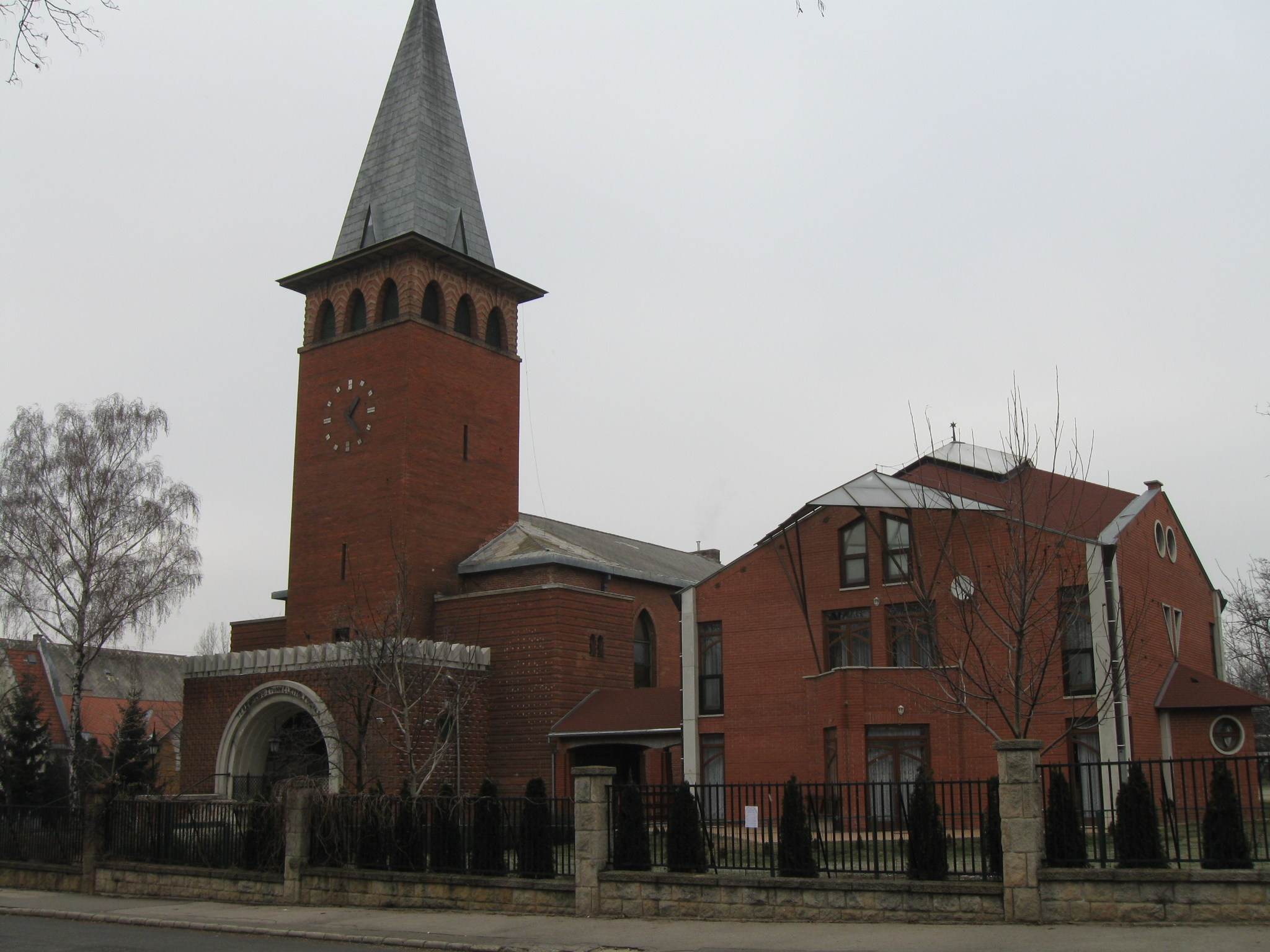 Calvinist church - Budapest, 18. distr., Kossuth square 5.